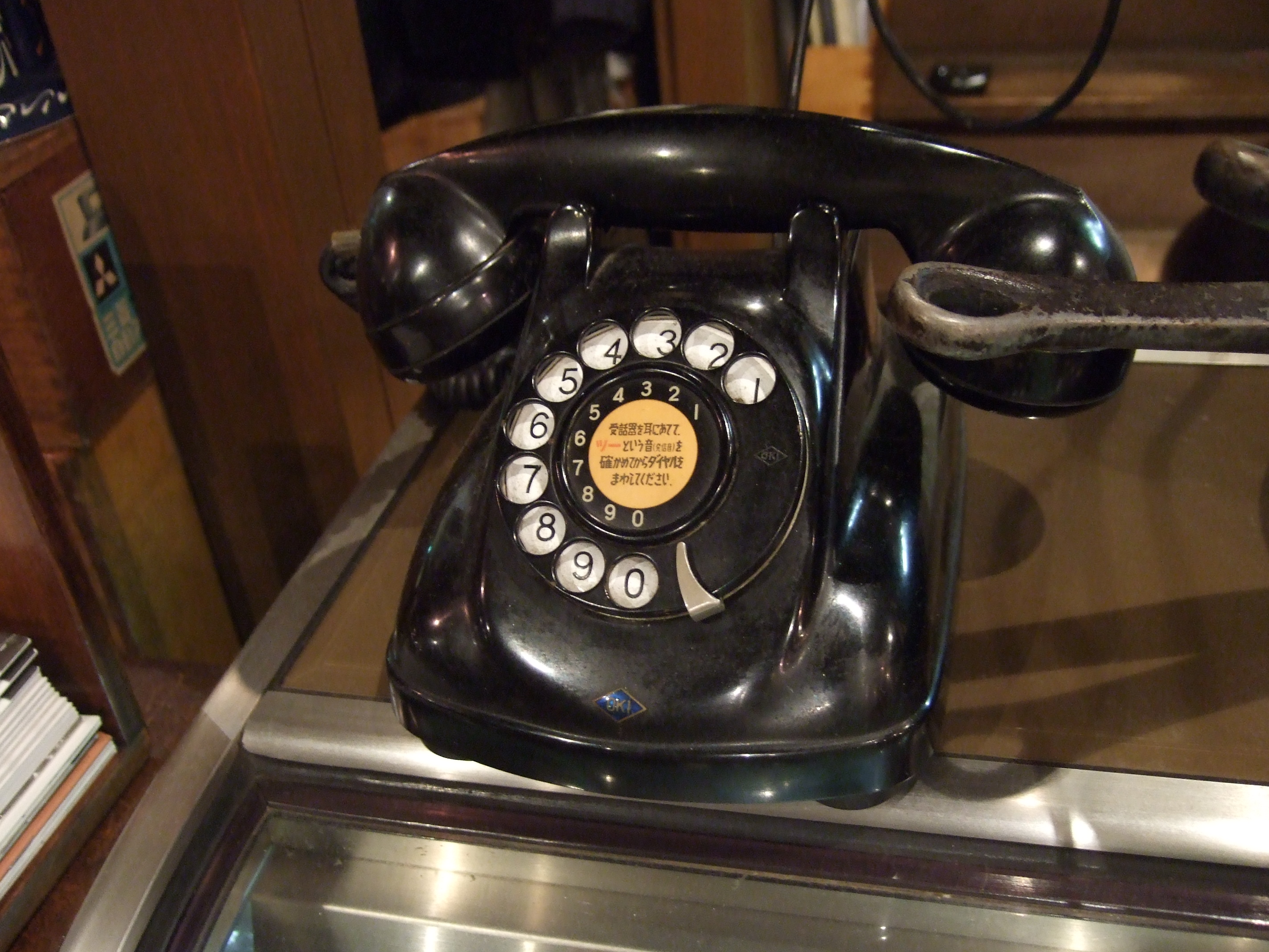 There is a description of the way to use the telephone at the center of the dial ring.